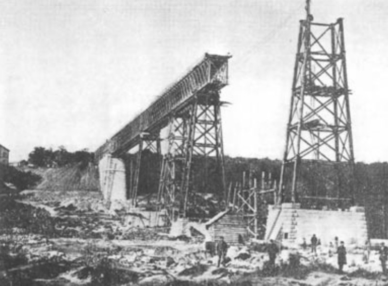 Ivančice Viaduct, Czech Republic